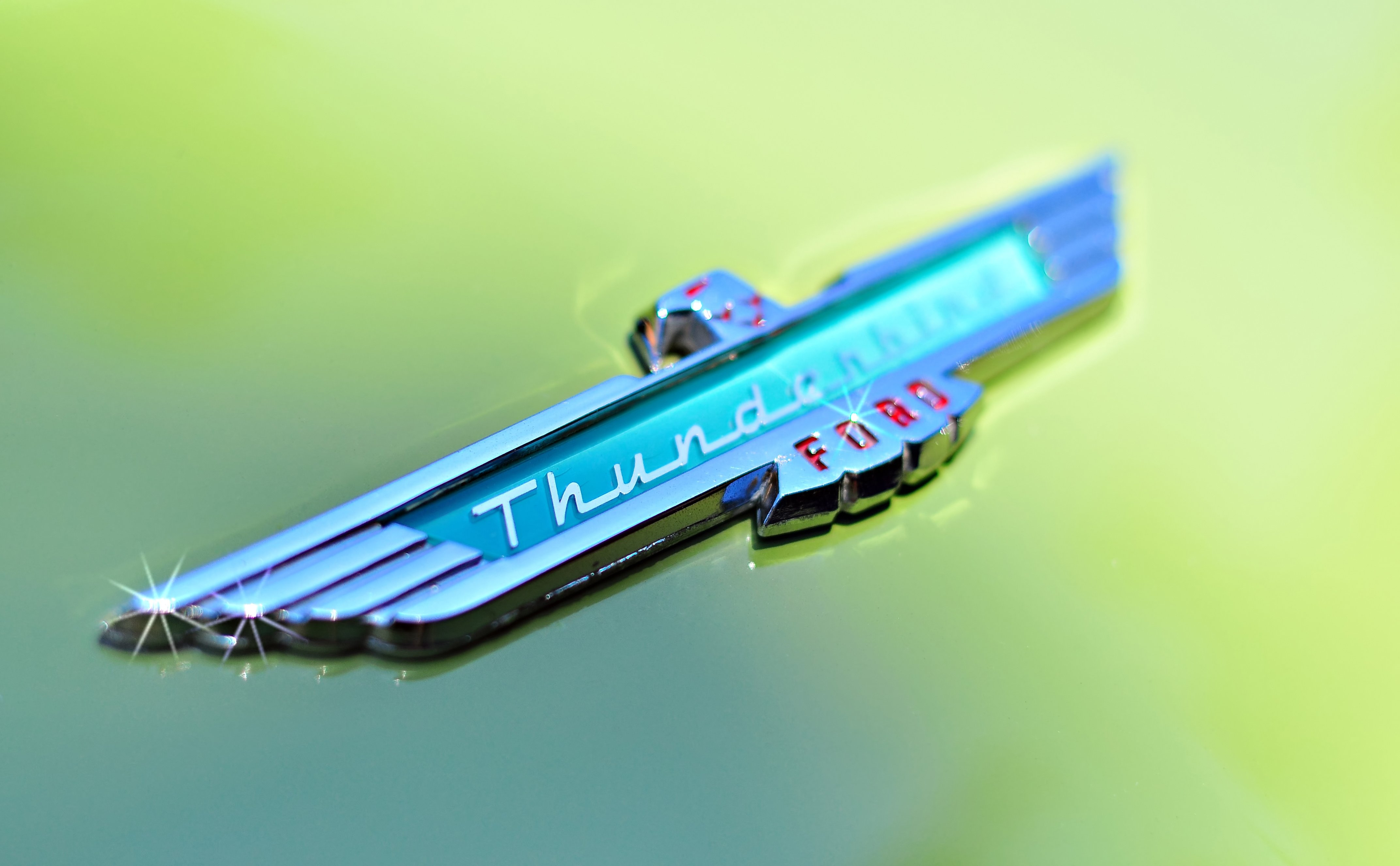 Ford T-Bird 1956 and 1957 emblem Taken at the Show 'n' Shine in downtown Lewiston yesterday. Couldn't pass up some practice with composition, so I hit the streets with only my 50mm f/1.8D slapped on my Nikon. Post processing: highlight stars in-camera, unsharp mask and denoise (Topaz Denoise filter) in PSE7, cropped to the golden ratio with Picnik.